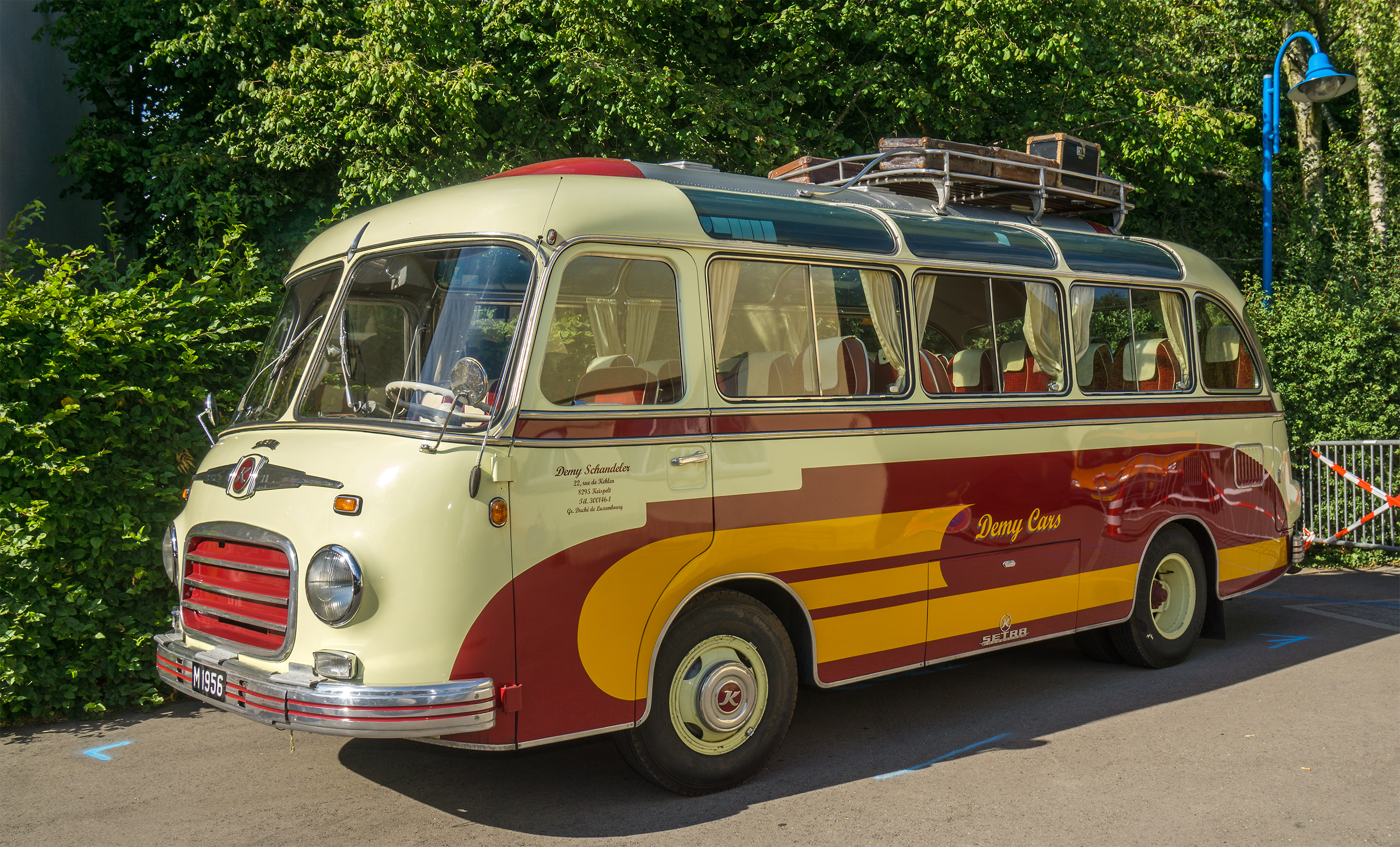 1956 Setra S6 Bus in Steinfort on the Vintage Cars & Bikes 2015